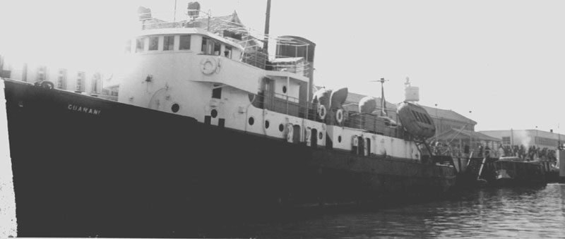 A.R.A. "Guaraní" R-7